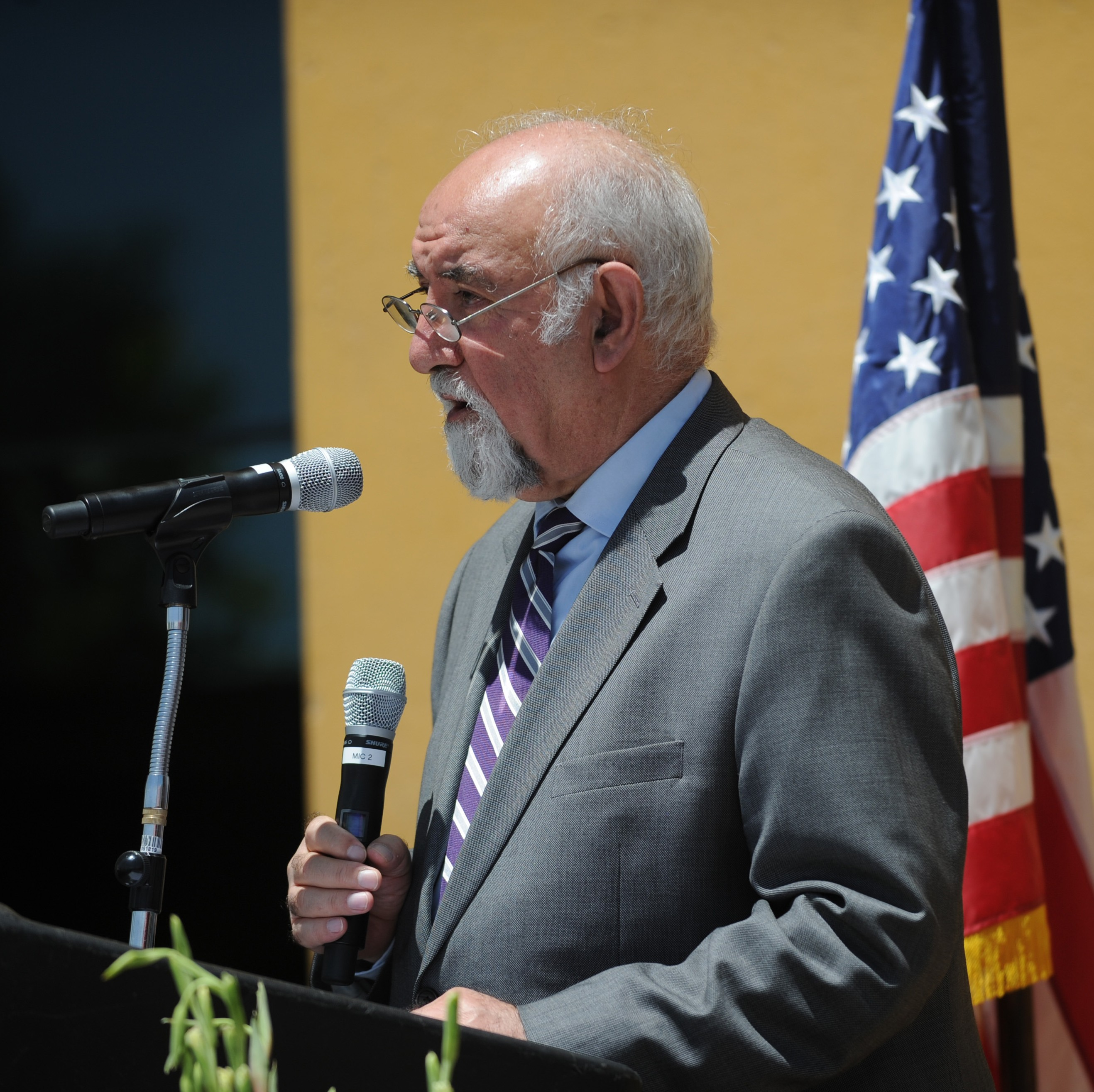 Hedayat Amin Arsala speaking at the U.S. Embassy in Kabul, Afghanistan.